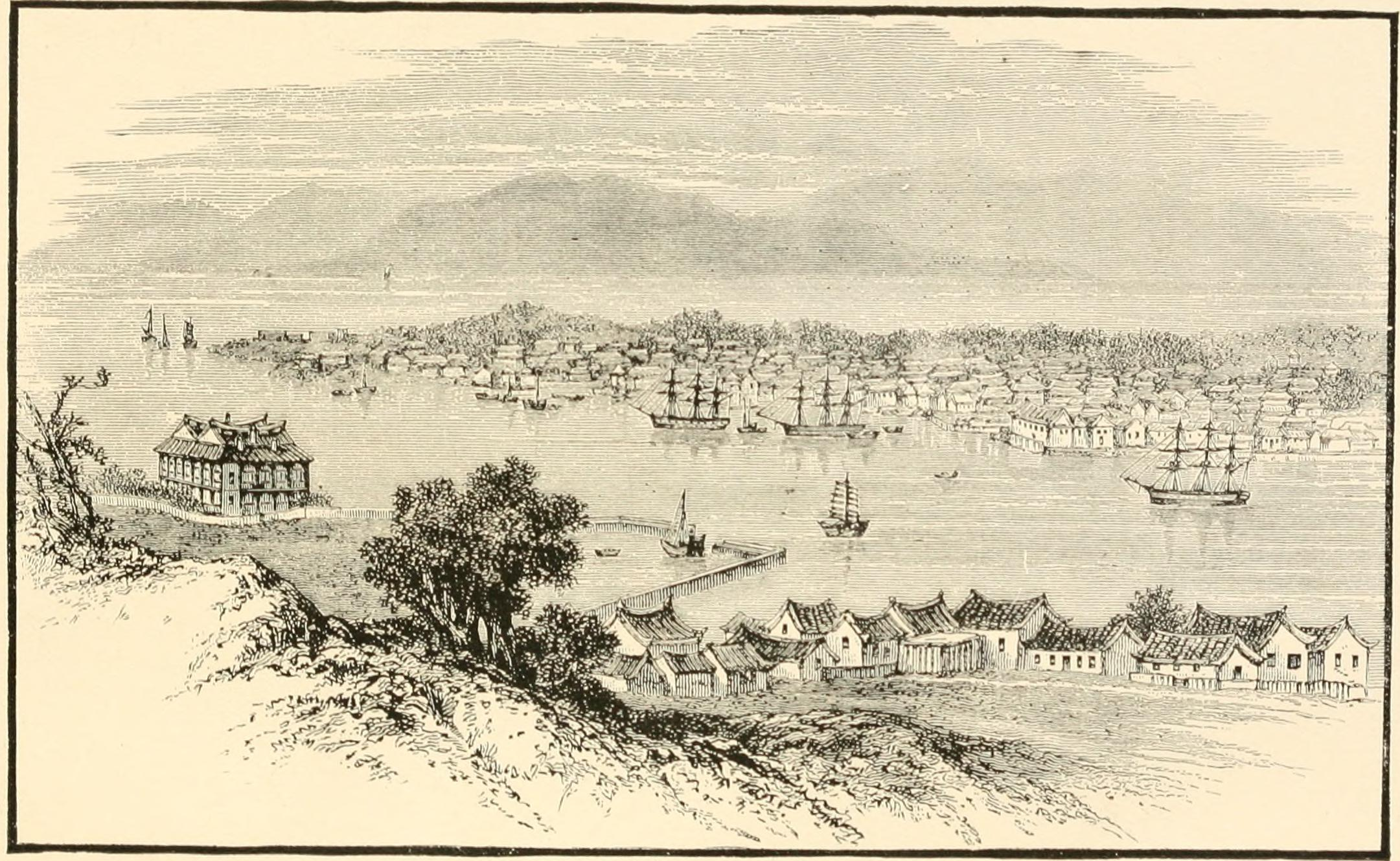 Amoy, from Kulangseu